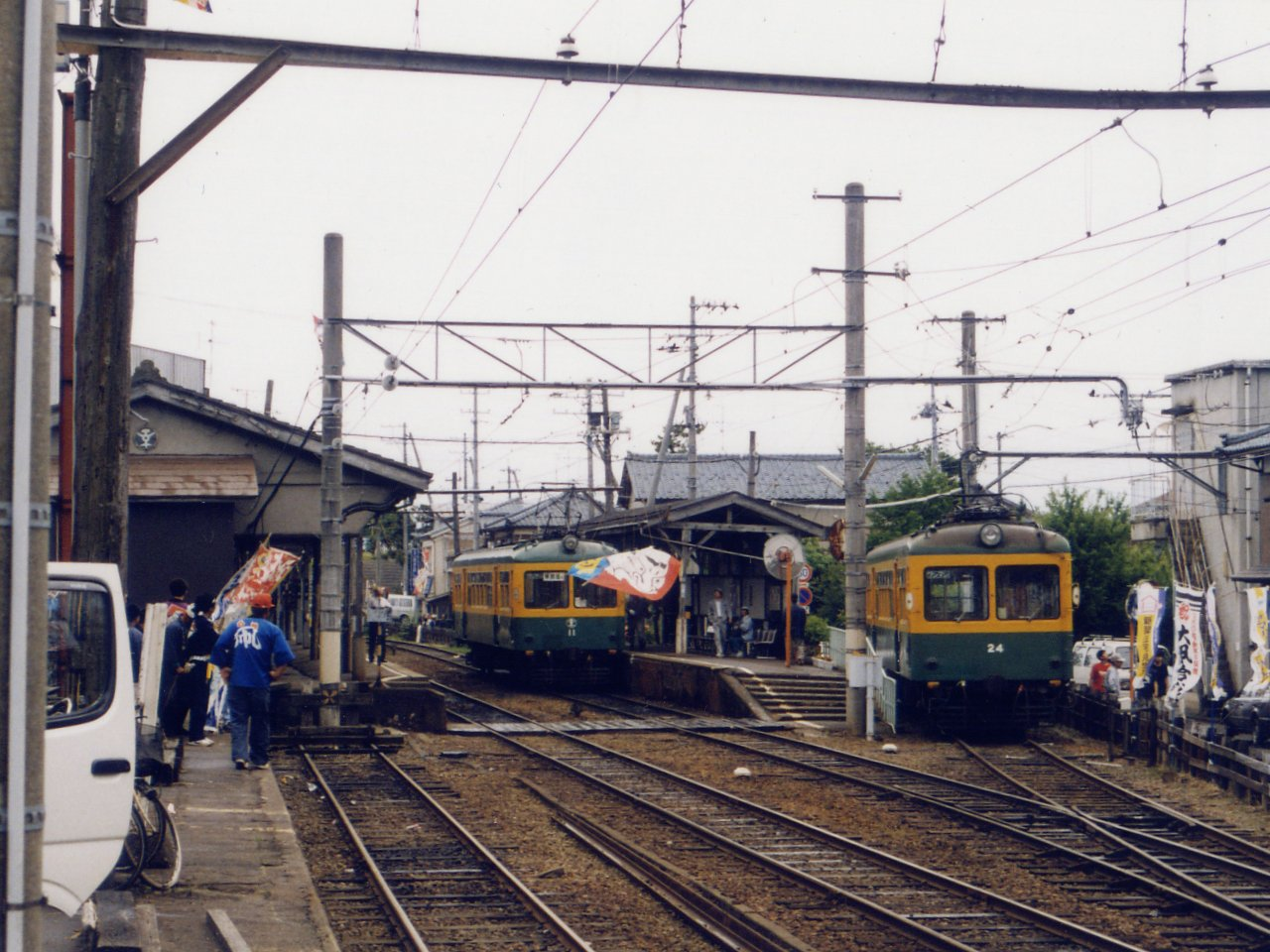 Shirone Station of Niigata Kotsu Railway, which was abolished on 5 April 1999. When this photograph was taken, the Shirone Giant Kite Battle have been taking place. A kite falls on a train, and the train stopped.